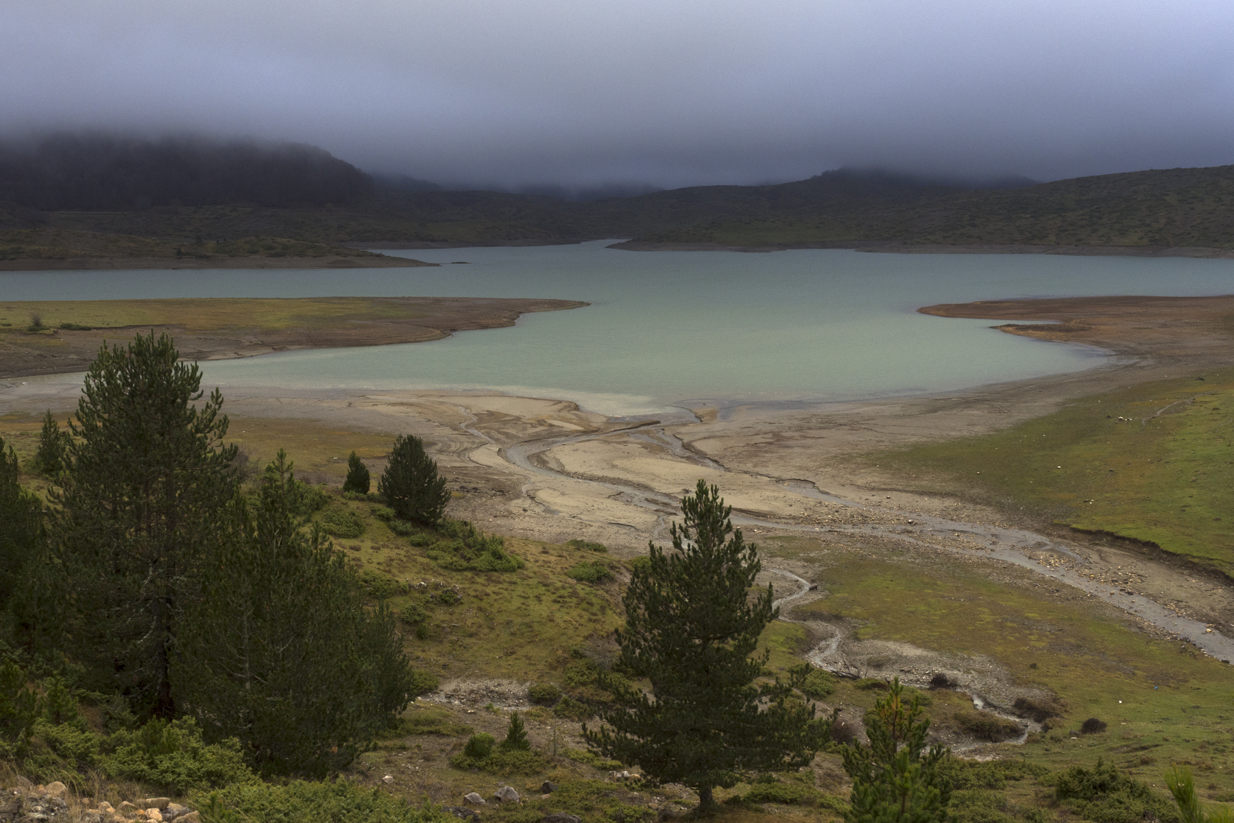 Aoou lake inside National park of Valia Kalda by Philip Gavrilos This is a photography of Natura 2000 protected area with ID GR1310003